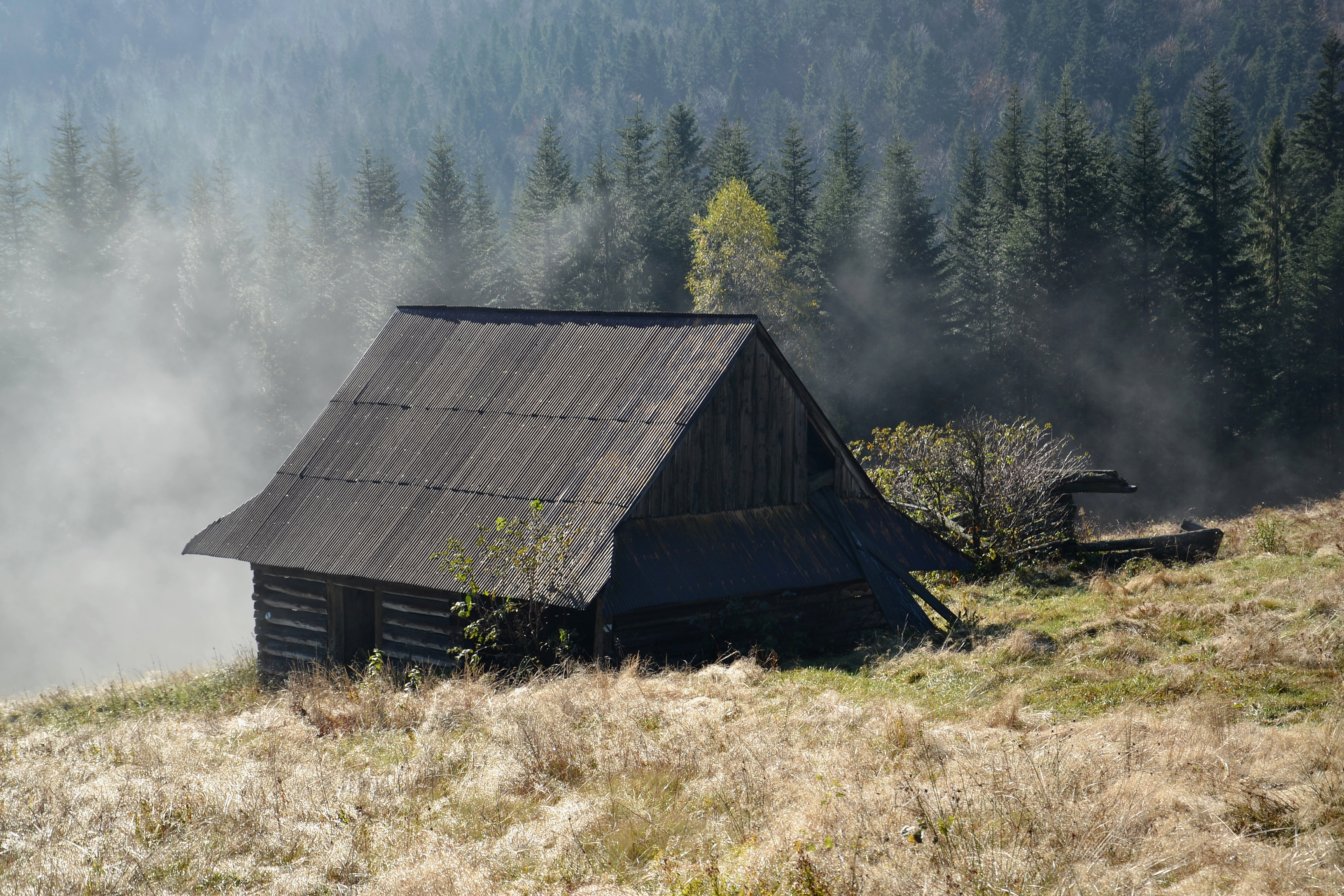 Hovel in Gorce mountains, Poland